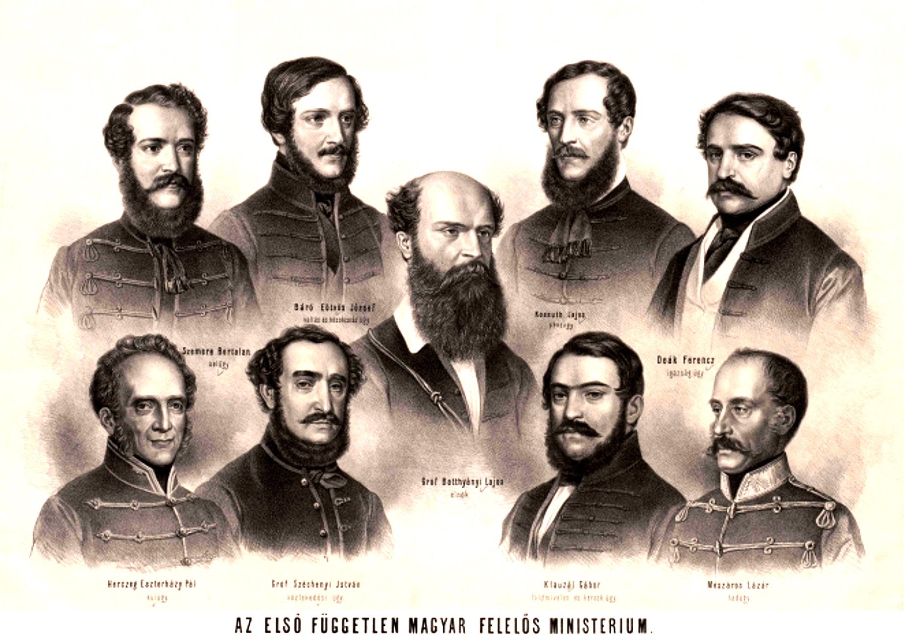 Members of the First Government in 1848 revolution.